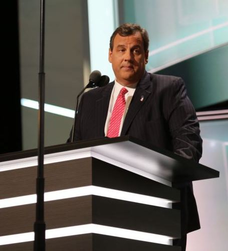 Chris Christie speaks at the Republican National Convention in Cleveland, July 19, 2016.